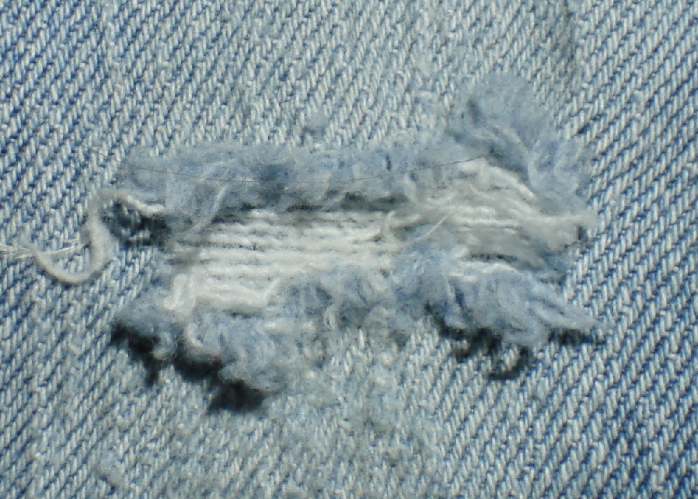 Hole in denim fabric